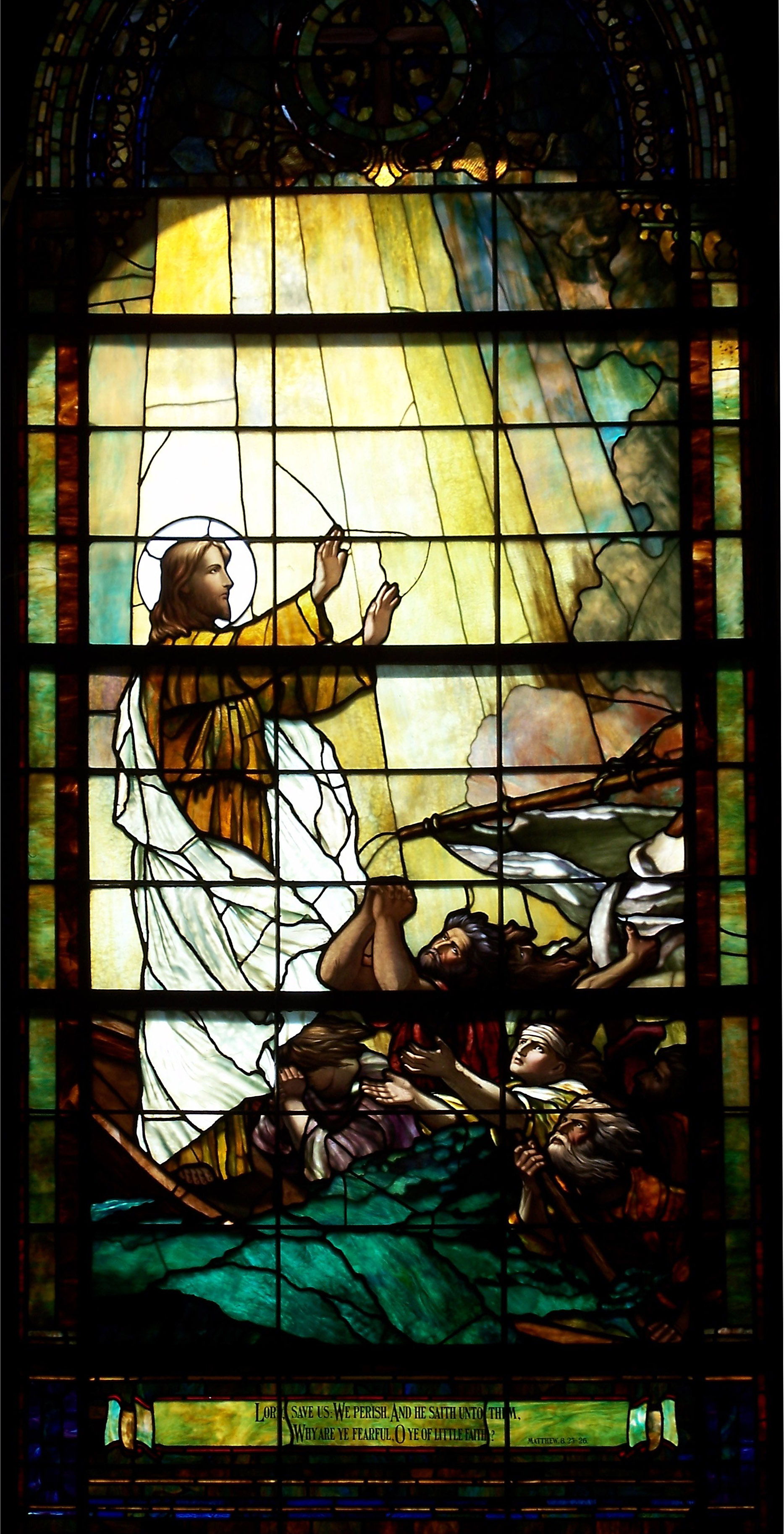 Mosaic glass window on East side of Stanford Memorial Church. Stanford, California, USA. The window is made by Frederick S. Lamb (1863-1928), who based his work on oil paintings by Antonio Paoletti (1834-1912).